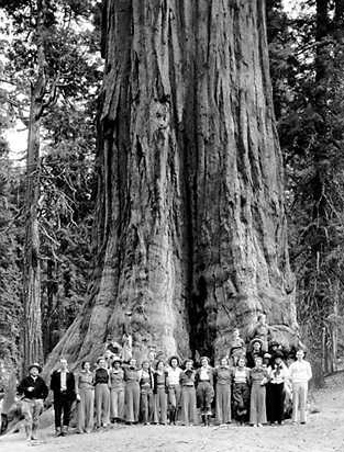 Base of General Grant